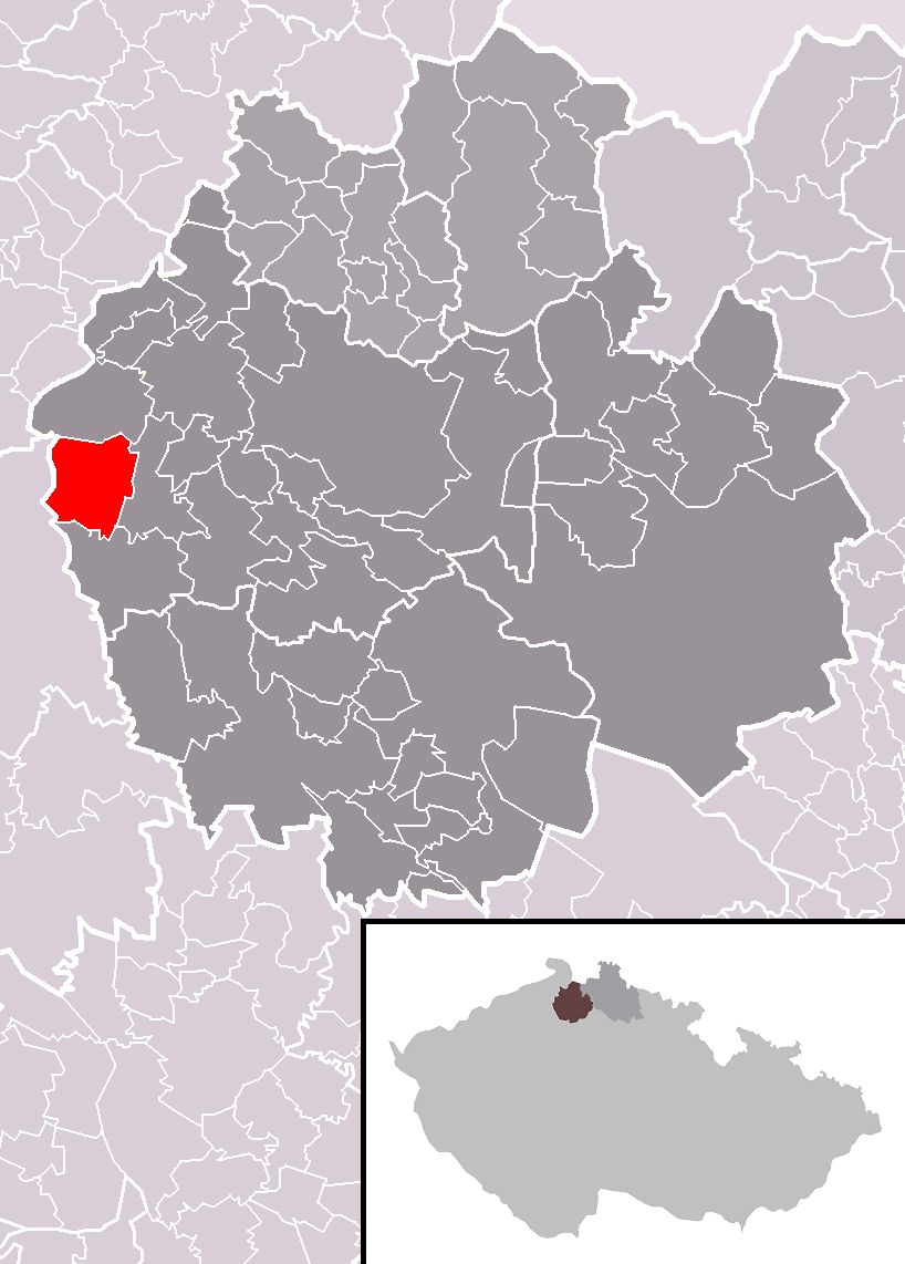 Location of Kravaře municipality within Česká Lípa District and administrative area of Česká Lípa as a Municipality with Extended Competence.